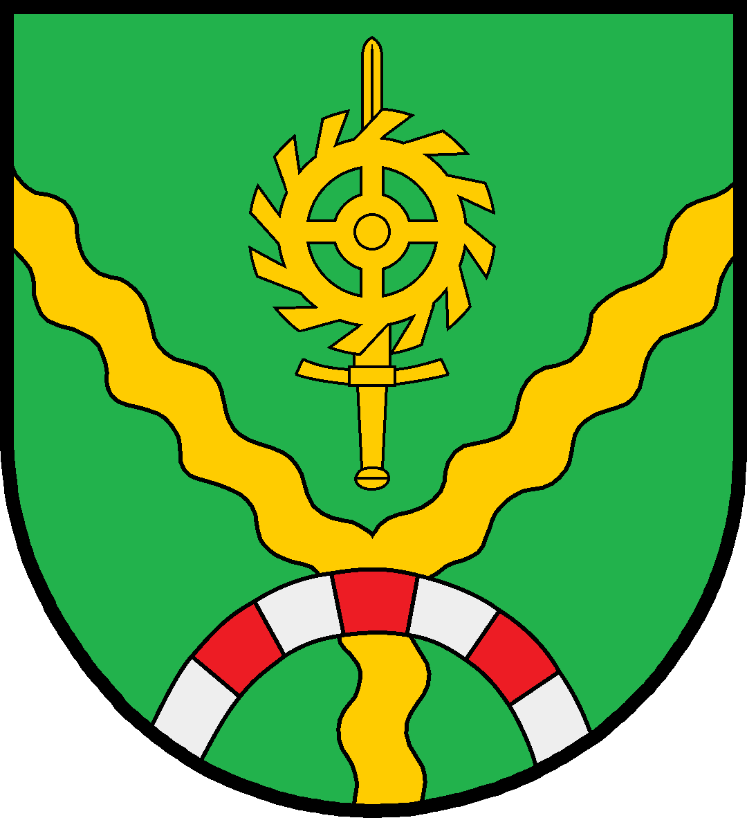 Coat of arms of the municipality Sollerup in Schleswig-Holstein, Germany.